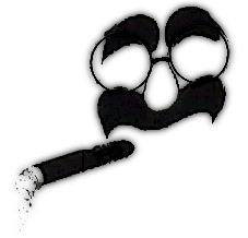 cropped version of Image:Grouchoicon.jpg - "Self-made caricature of Groucho Marx"